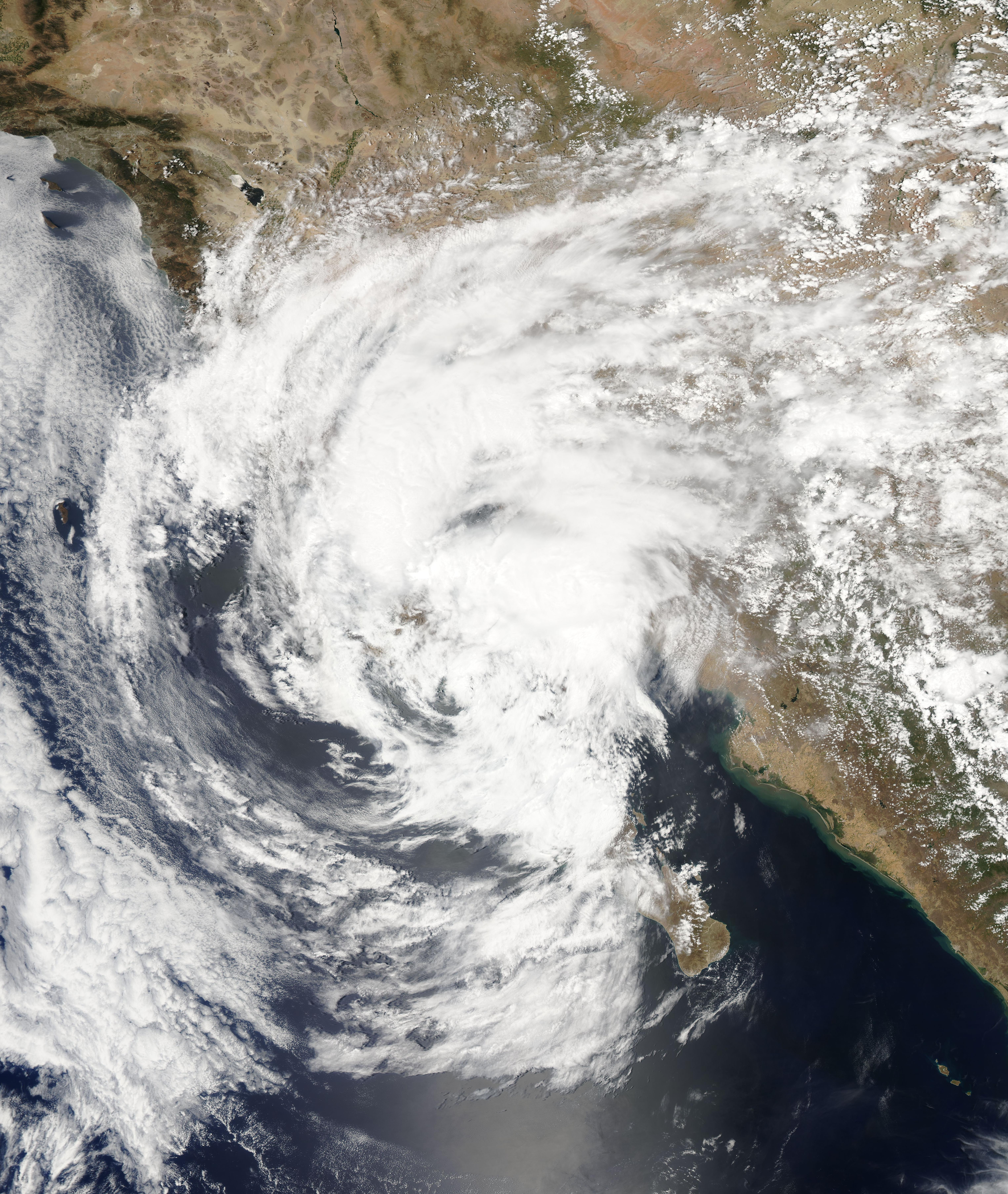 Tropical Depression Blanca over Baja California on June 8, 2015